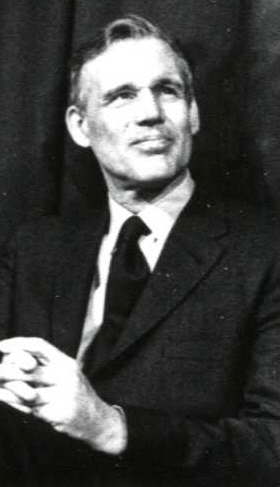 Massachussetts Governor Francis Sargent, ca. 1970